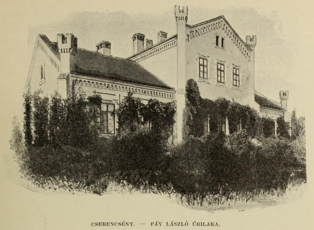 Mansion in Cserencsény